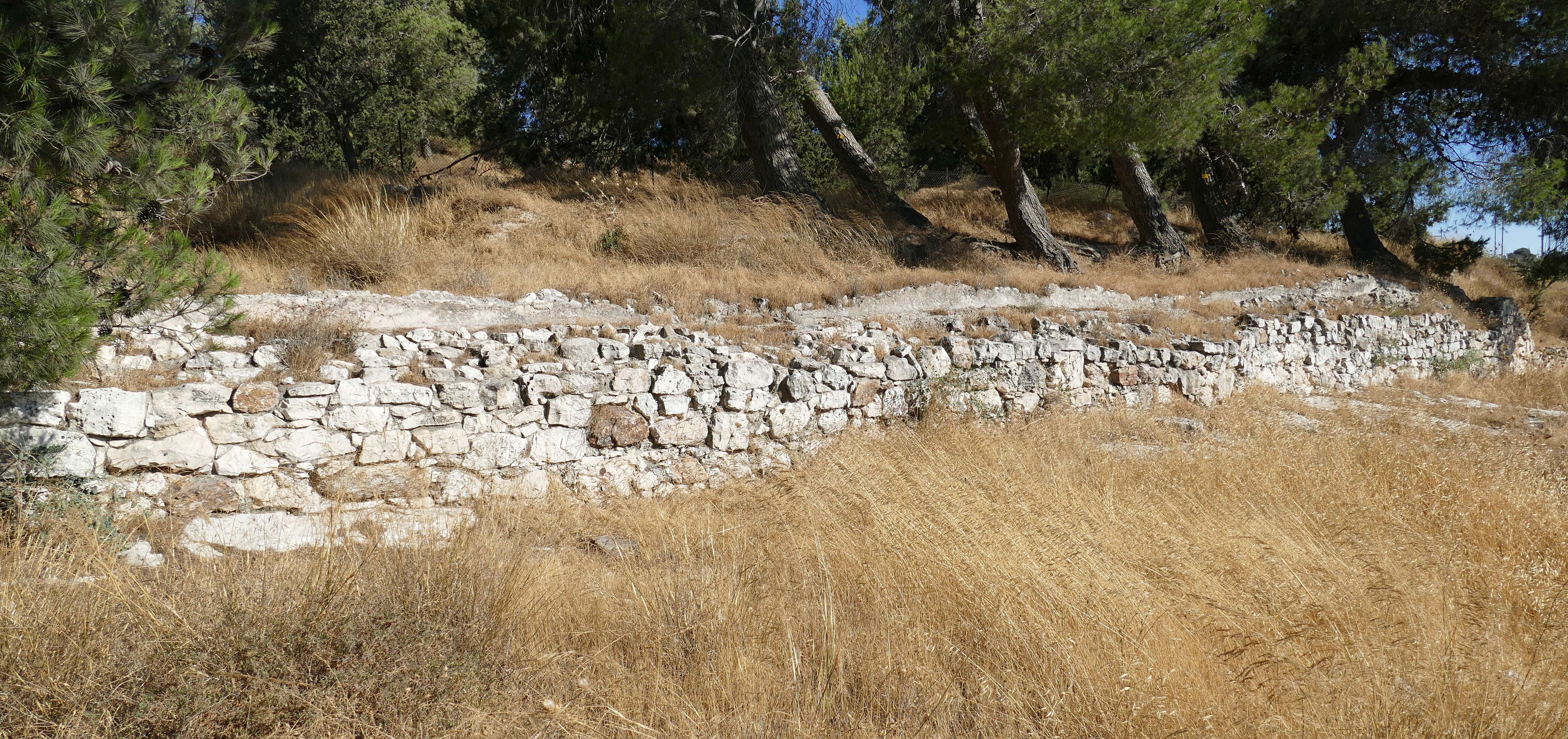 Fragment of the "upper aqueduct", leading from Solomons pools to Jerusalem, near Hebron rd, Jerusalem, Israel.